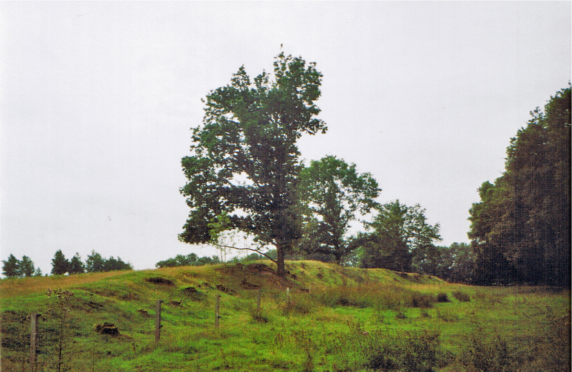 Hasseberg near Sellingen, Netherlands, highest point of the province of Groningen (14,2 m)